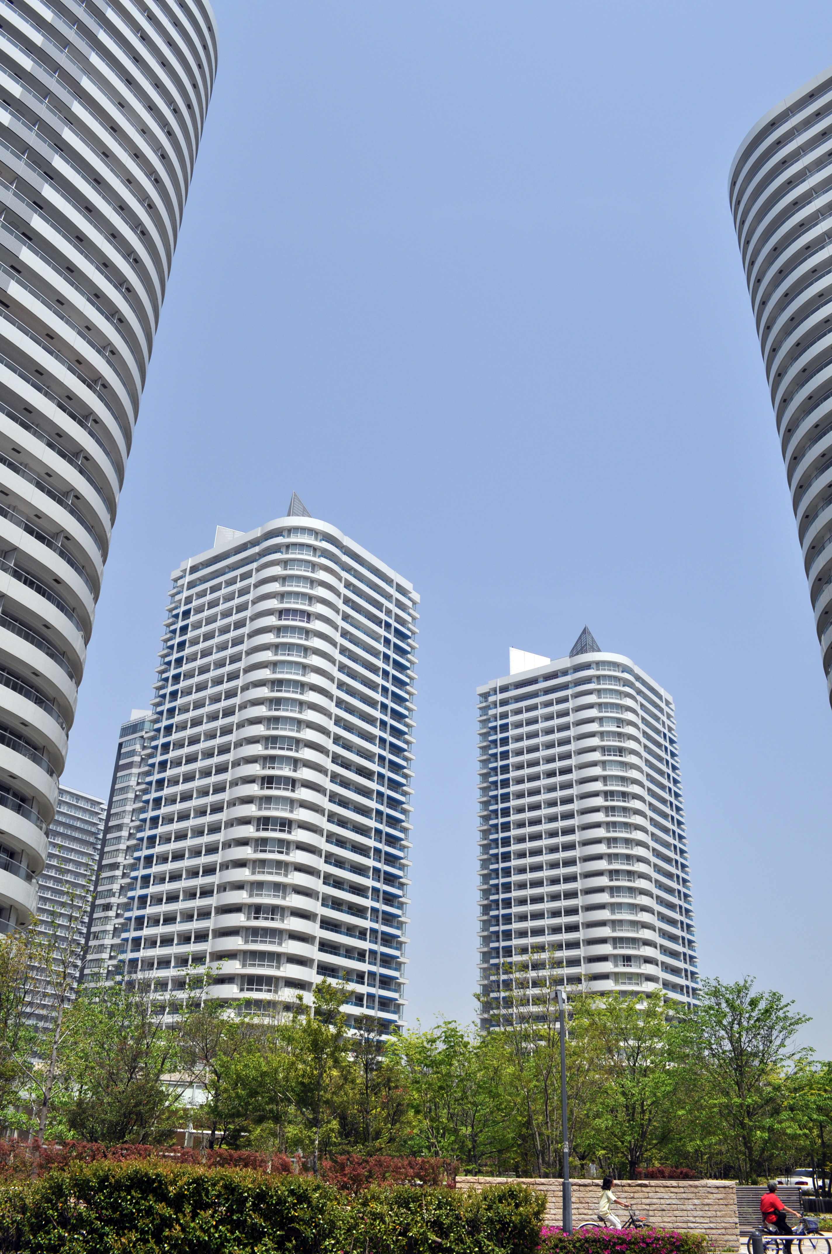 View of skyscraper condominiums in Minato Mirai 21 in Yokohama, Japan.